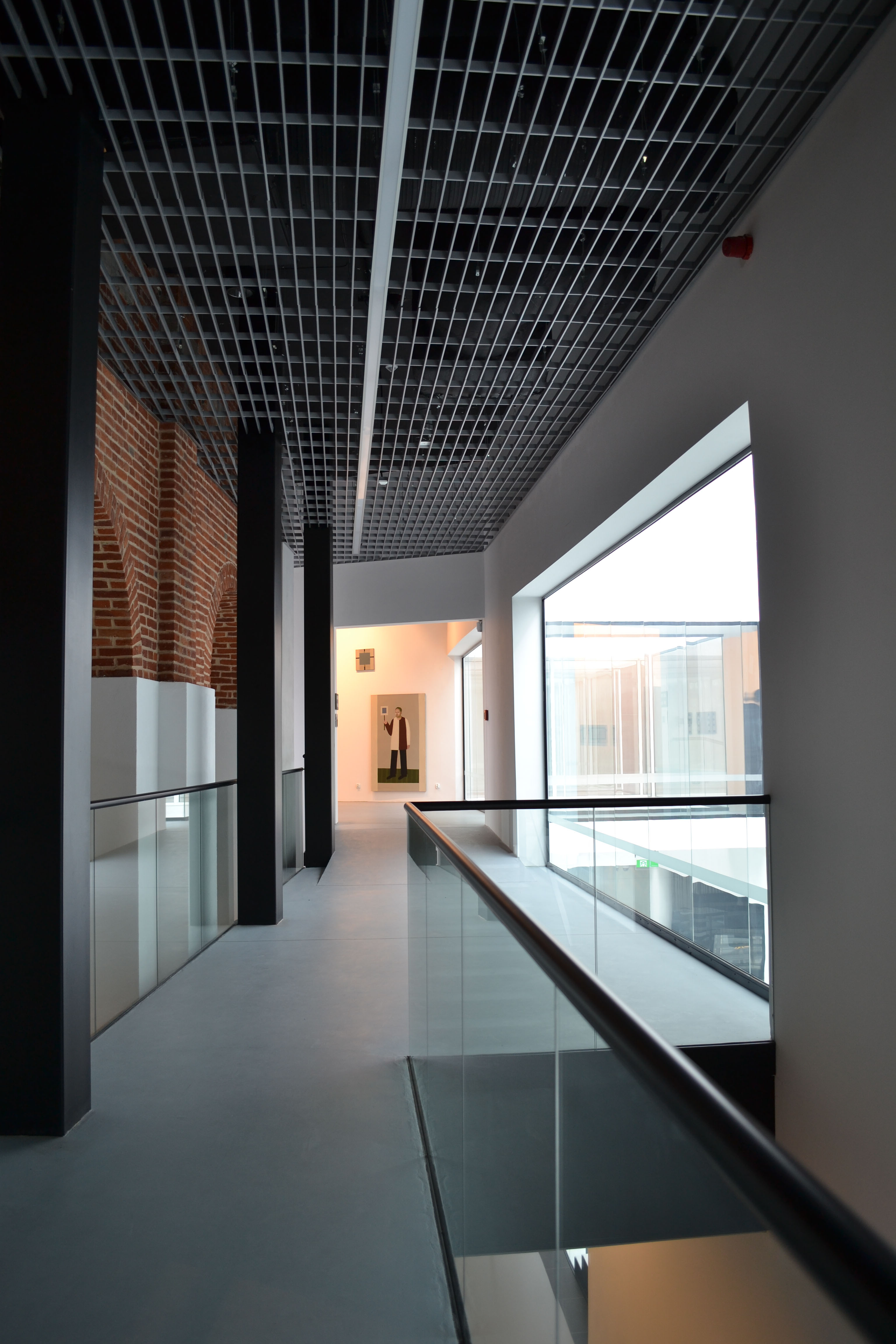 MCSW Elektrownia Radom - foyer I piętra